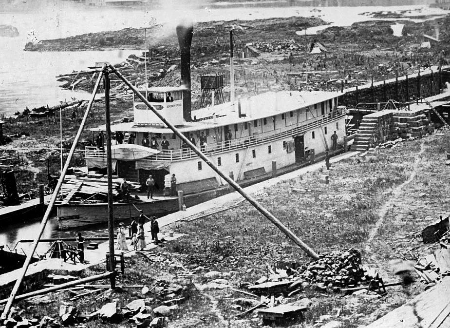 The sternwheeler Governor Grover, in the locks at Oregon City, March 1873.